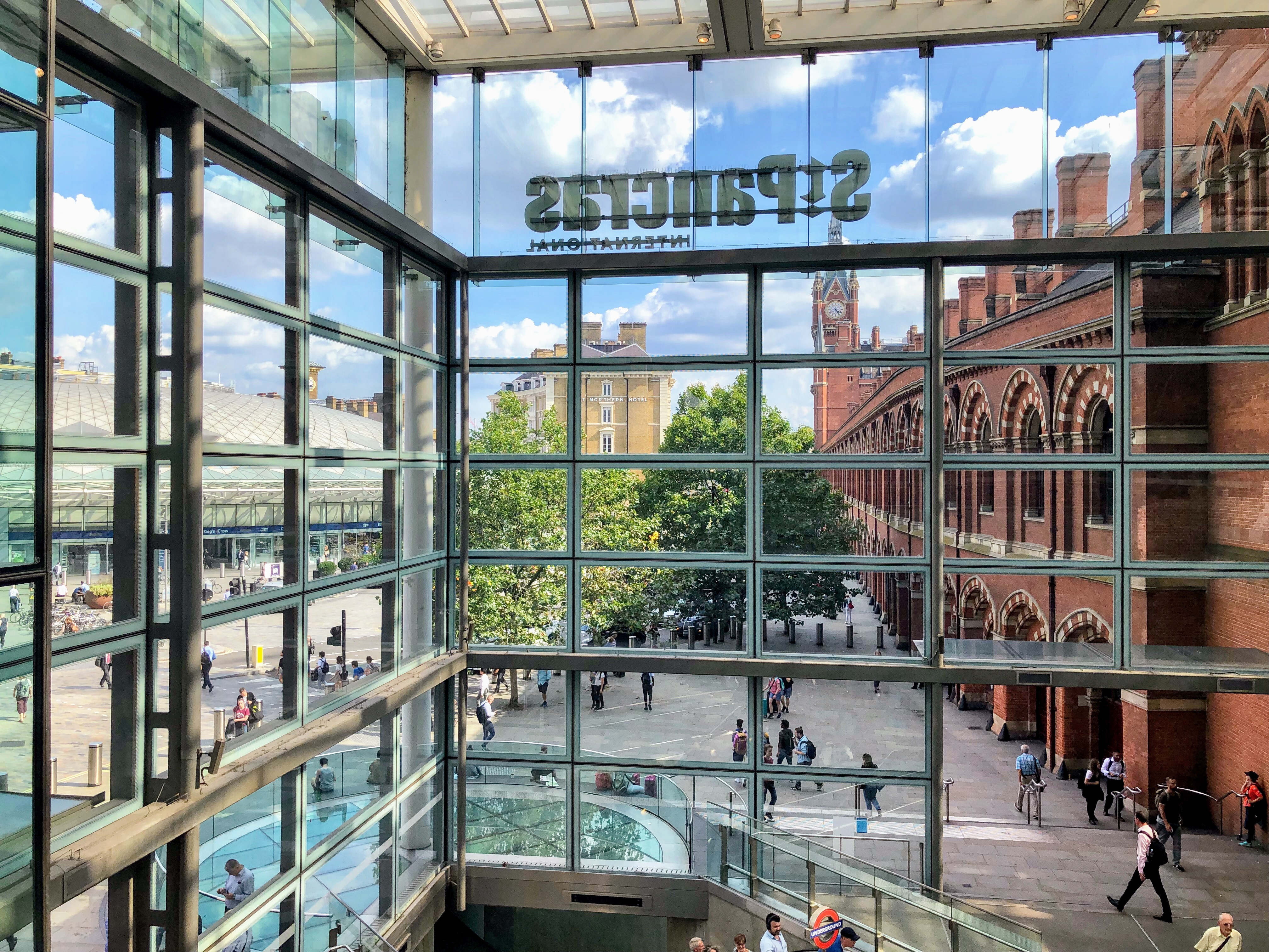 St. Pancras International station, view from interior